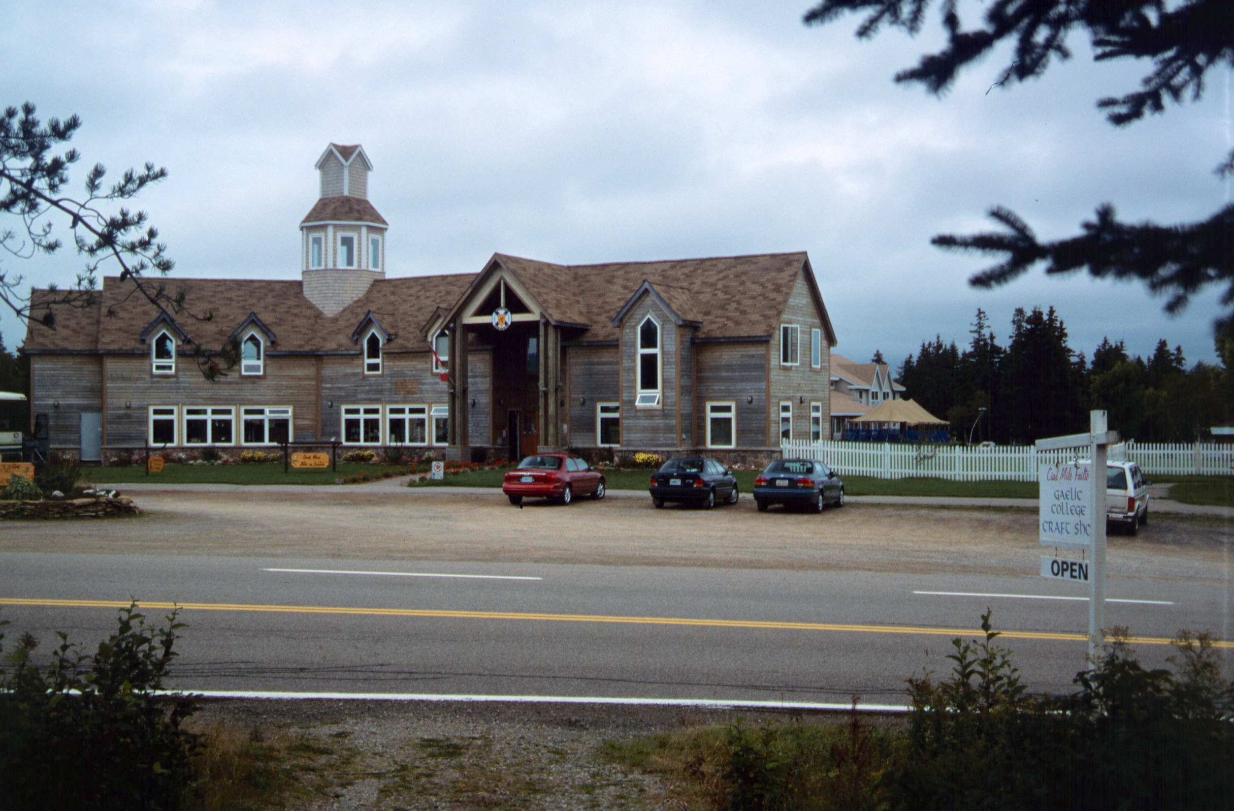 The Gaelic College of Celtic Arts and Crafts. A cultural center near St. Anns in the canadian province of Nova Scotia